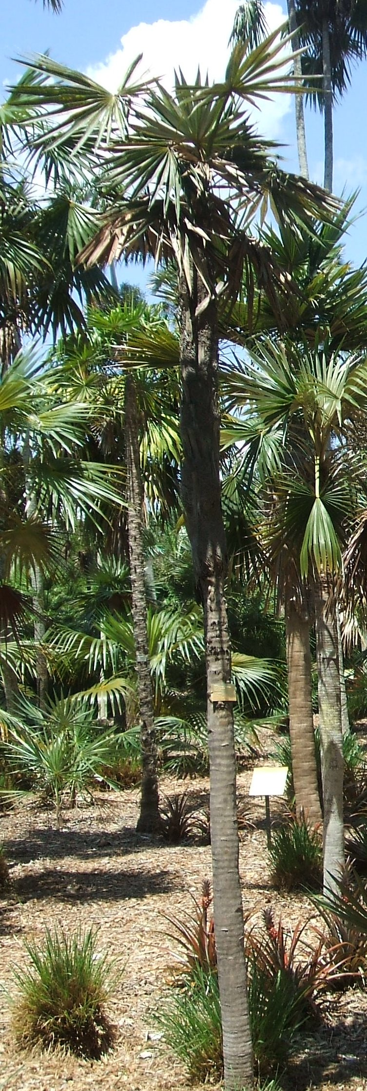 Coccothrinax miraguama subsp. miraguama at Fairchild Tropical Botanic Garden, Coral Gables, Florida, USA.